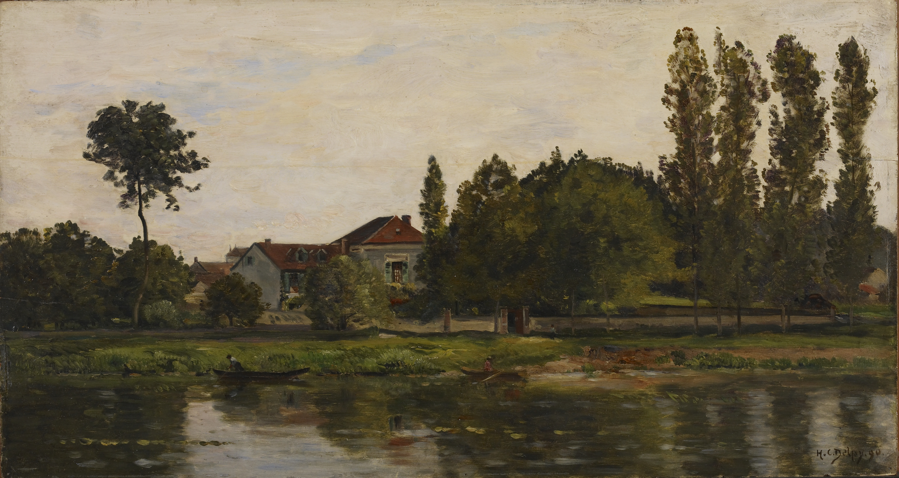 Delpy was a specialist in tranquil river scenes. He was a pupil of Daubigny and exhibited landscapes in his master's style until the end of the 19th century. This view of the well-known Baltimore expatriate George Lucas' house at Boisisse-la-Bertrand, on the banks of the Seine River may have been painted in the summer of 1890, when Delpy visited Lucas on at least two occasions.